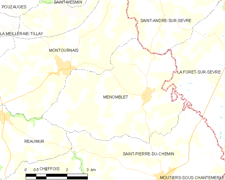 Map of French municipality Menomblet